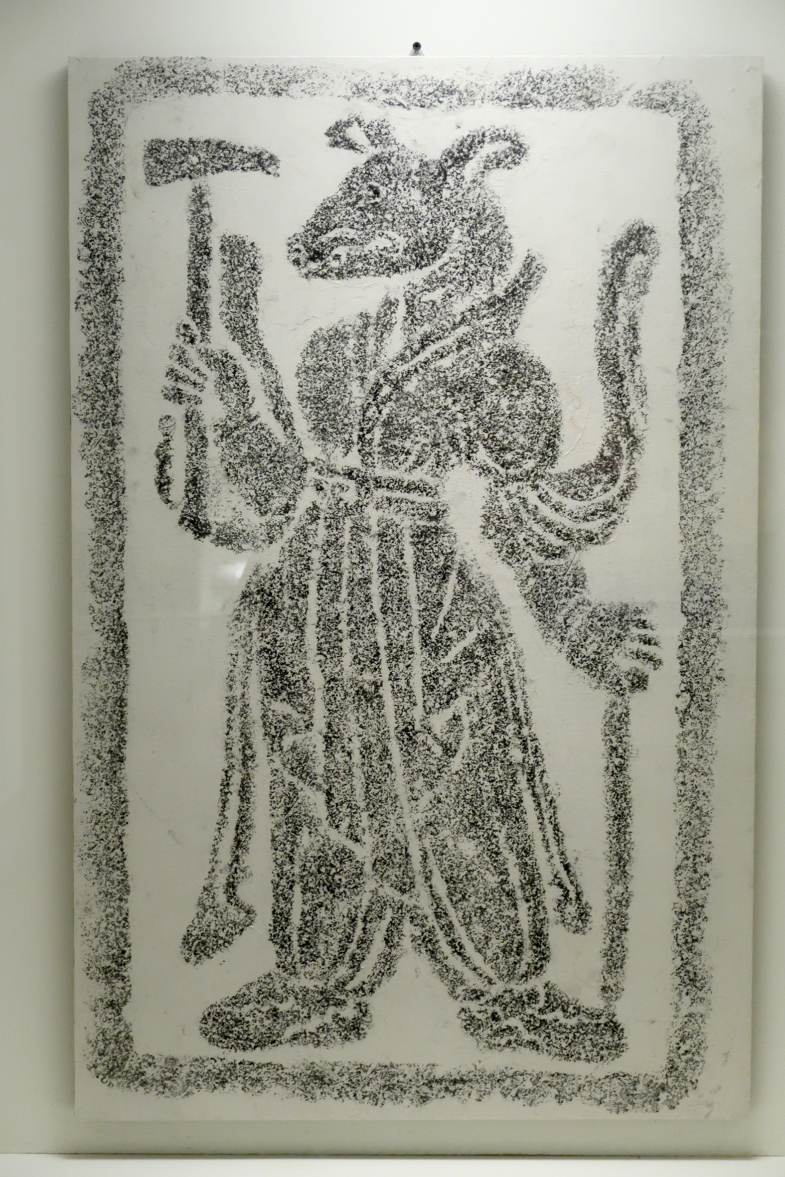 Dog. Zodiac figure. Unified Silla. Rubbing. Ewha Womans University Museum